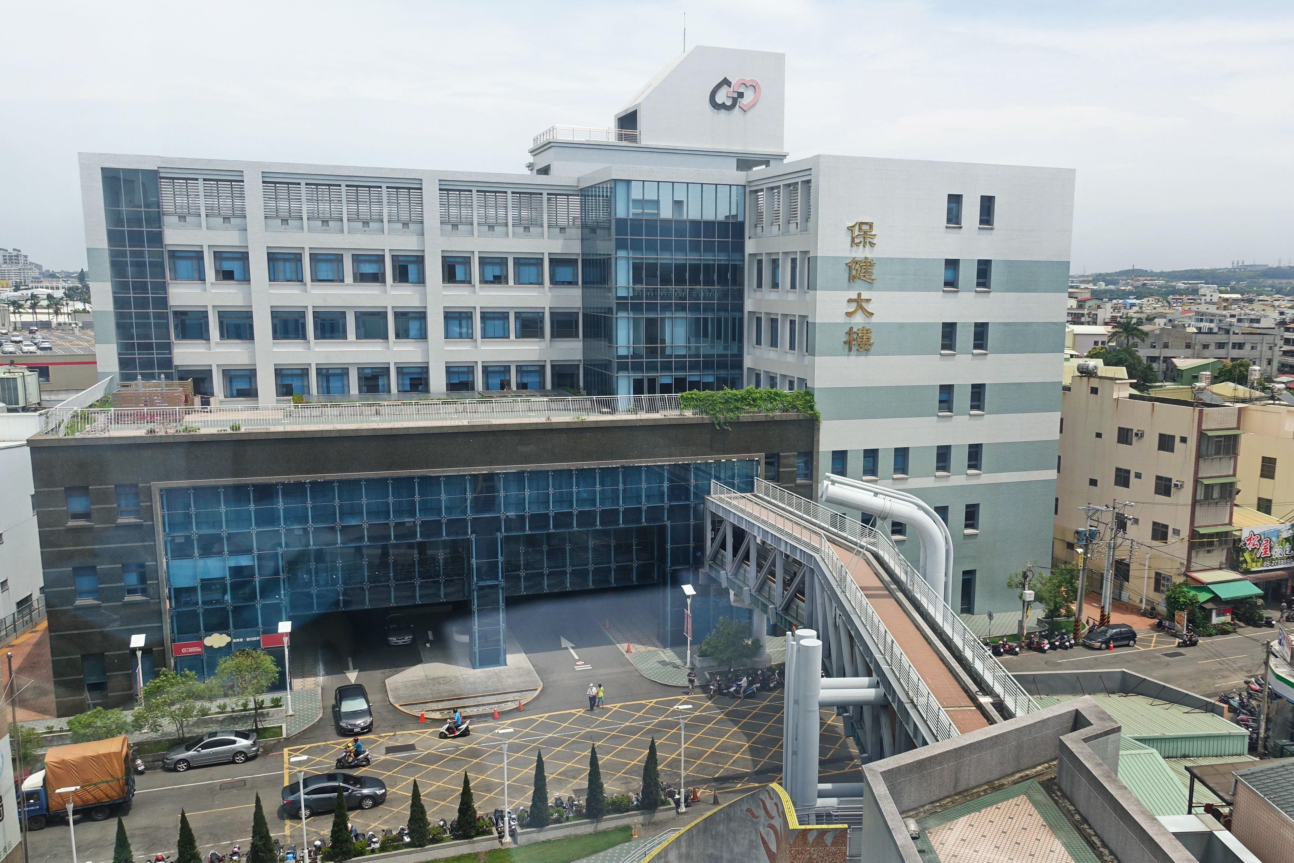 Baojian Building, Ditmanson Medical Foundation Chia-Yi Christian Hospital, Chiayi City, Taiwan.